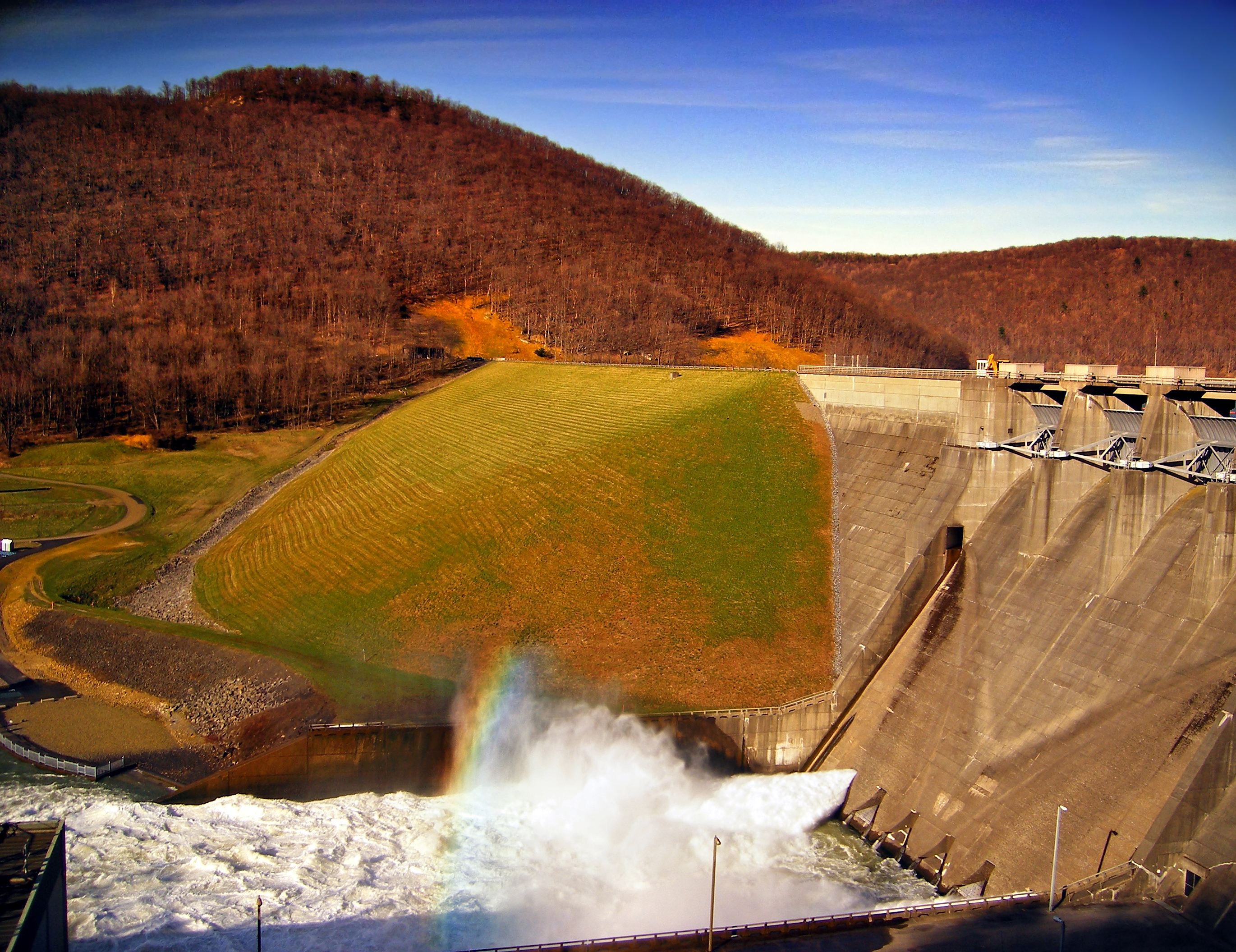 Late-day light, Kinzua Dam, Warren County. (Renamed version of "Image:471833150 9a7d423481.jpg", uploaded 05:25, 29. Dez. 2007 by JohnnyAlbert10)